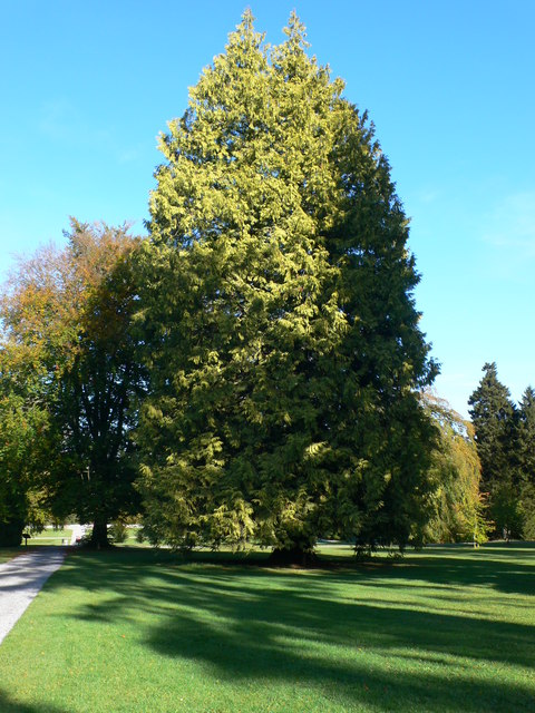 Golden Variegated Western Redcedar At Woodstock Arboretum. The botanical name is Thuja plicata 'Zebrina'.